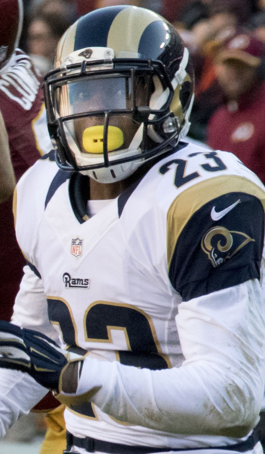 Rams at Redskins 12/7/14